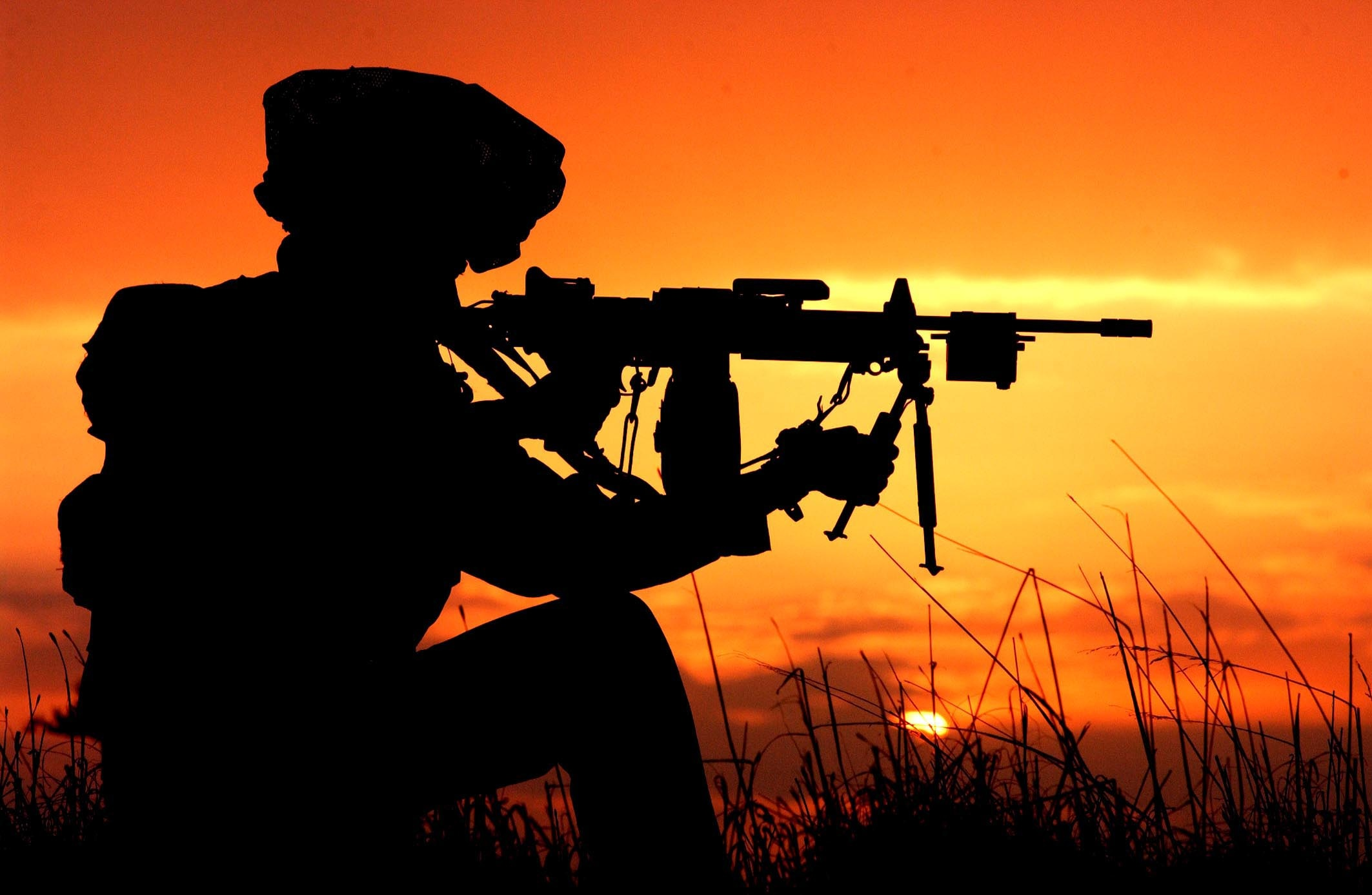 A fighter from the Armored Brigade's Reconnaissance Unit levels the way for the following tanks during an exercise of the Armored Brigade's Headquarters. Featured as Photo of the Day on: February 29, 2012 Photo by: Abir Sultan, IDF Spokesperson's Unit The Israel Defense Forces Facebook The Israel Defense Forces blog Follow us on Twitter